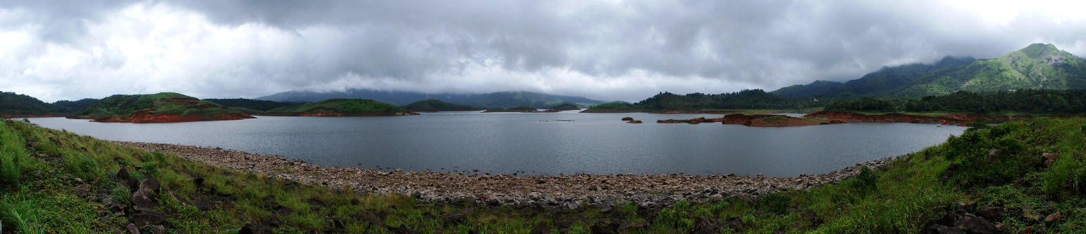 Banasura Sagar Dam.